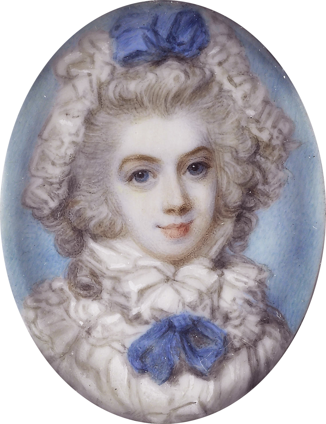 Charlotte, Baroness de Ferrers, later Countess of Leicester (d.1802), wife of George Townshend, 2nd Marquess Townshend.